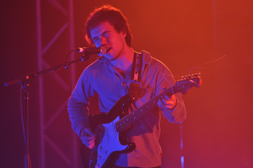 Avi Buffalo at All Tomorrow's Parties New York 2010, Monticello, NY, September 3-5, 2010